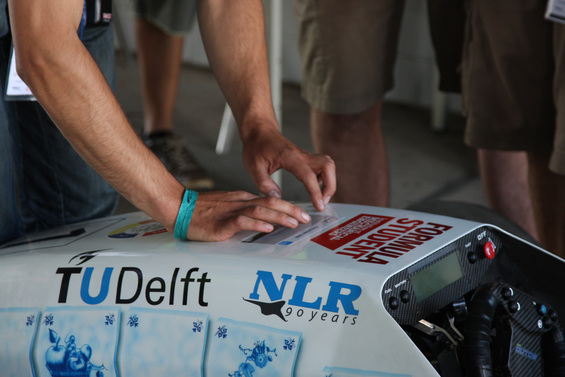 Stickers on DUT Delft car